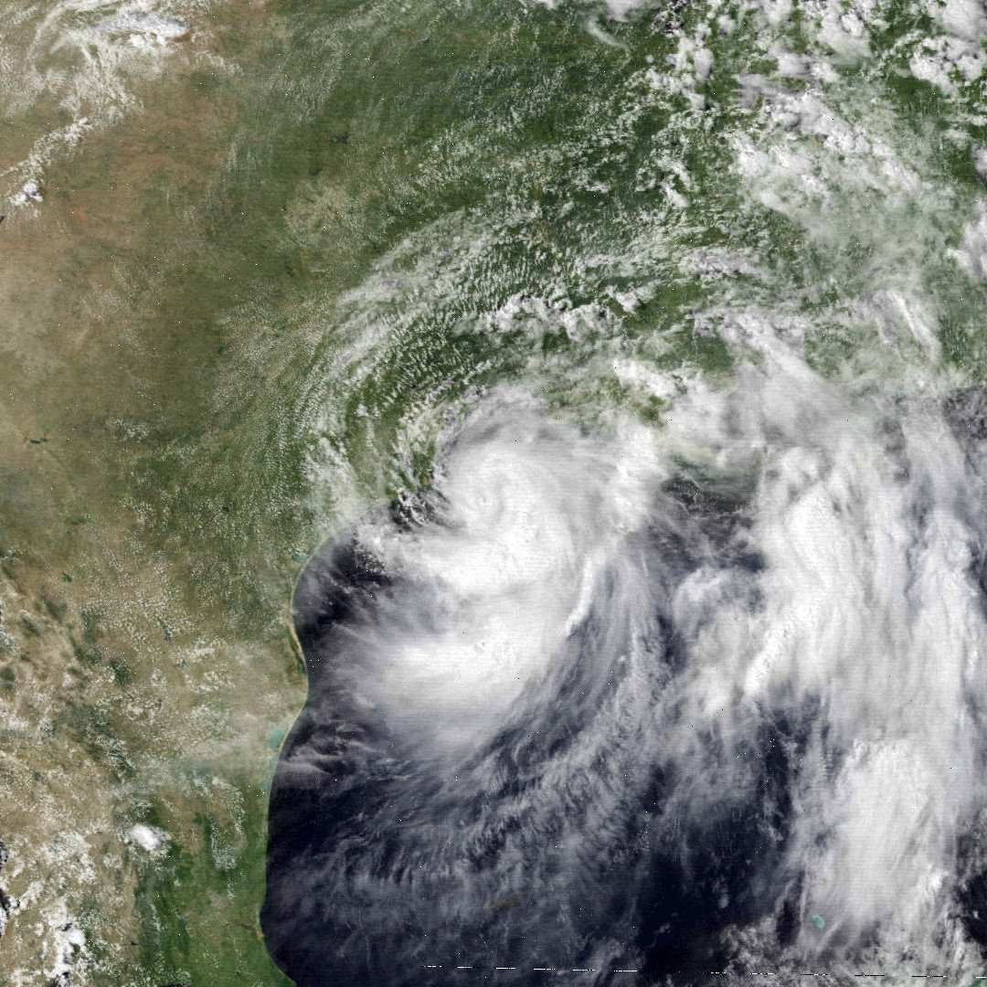 Tropical Storm Claudette at peak intensity making landfall in Texas on July 24, 1979